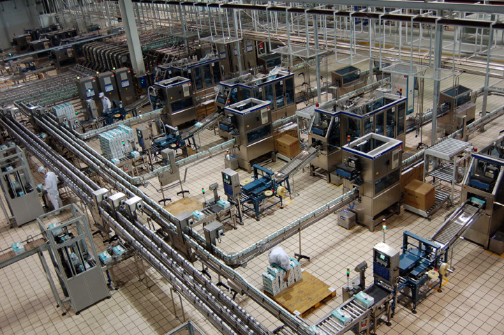 Photo taken by Peter Tittenberger on June 5, 2009 at the Mengniu facility just outside Hohhot Inner Mongolia.